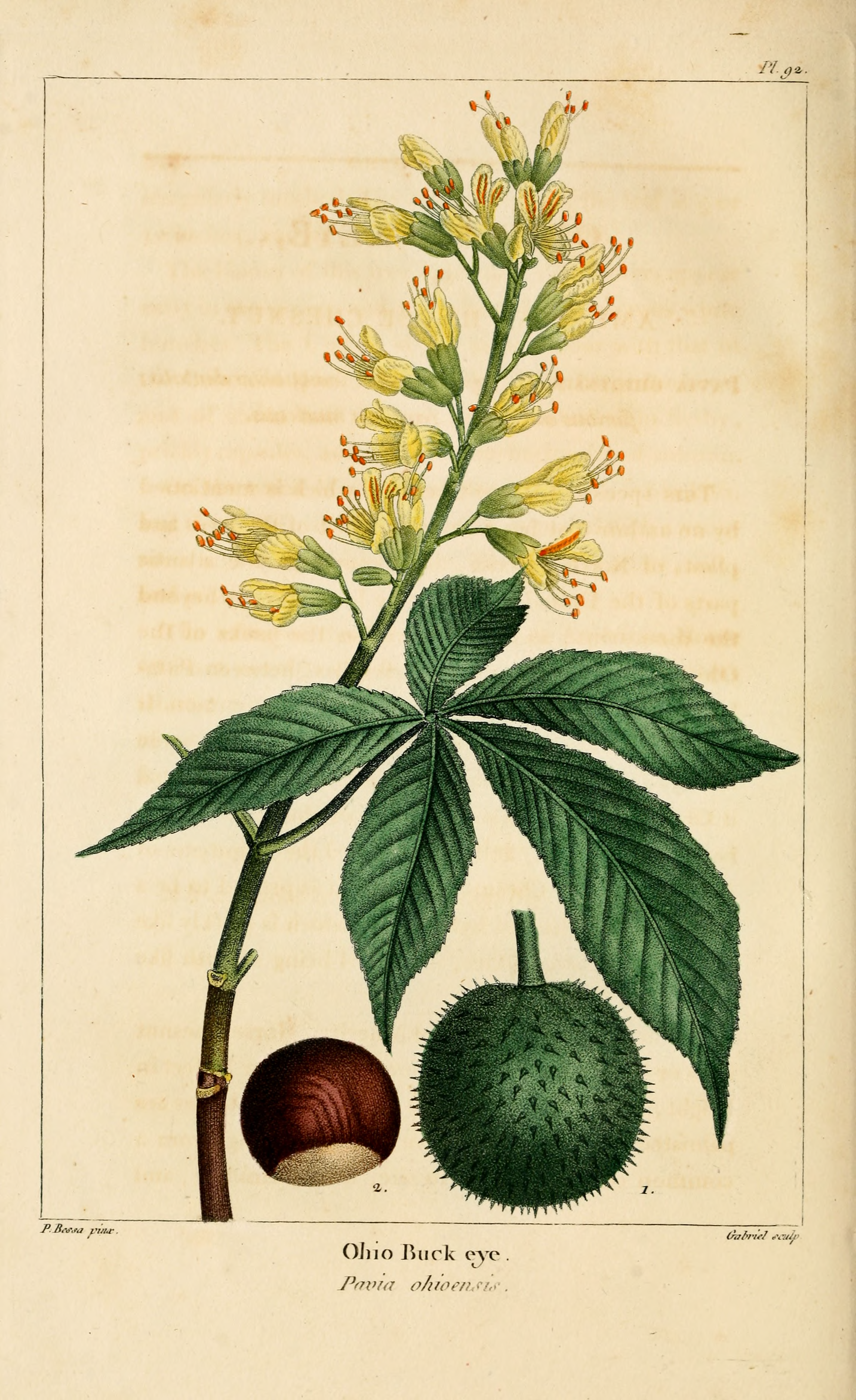 Plate from The North American Sylva